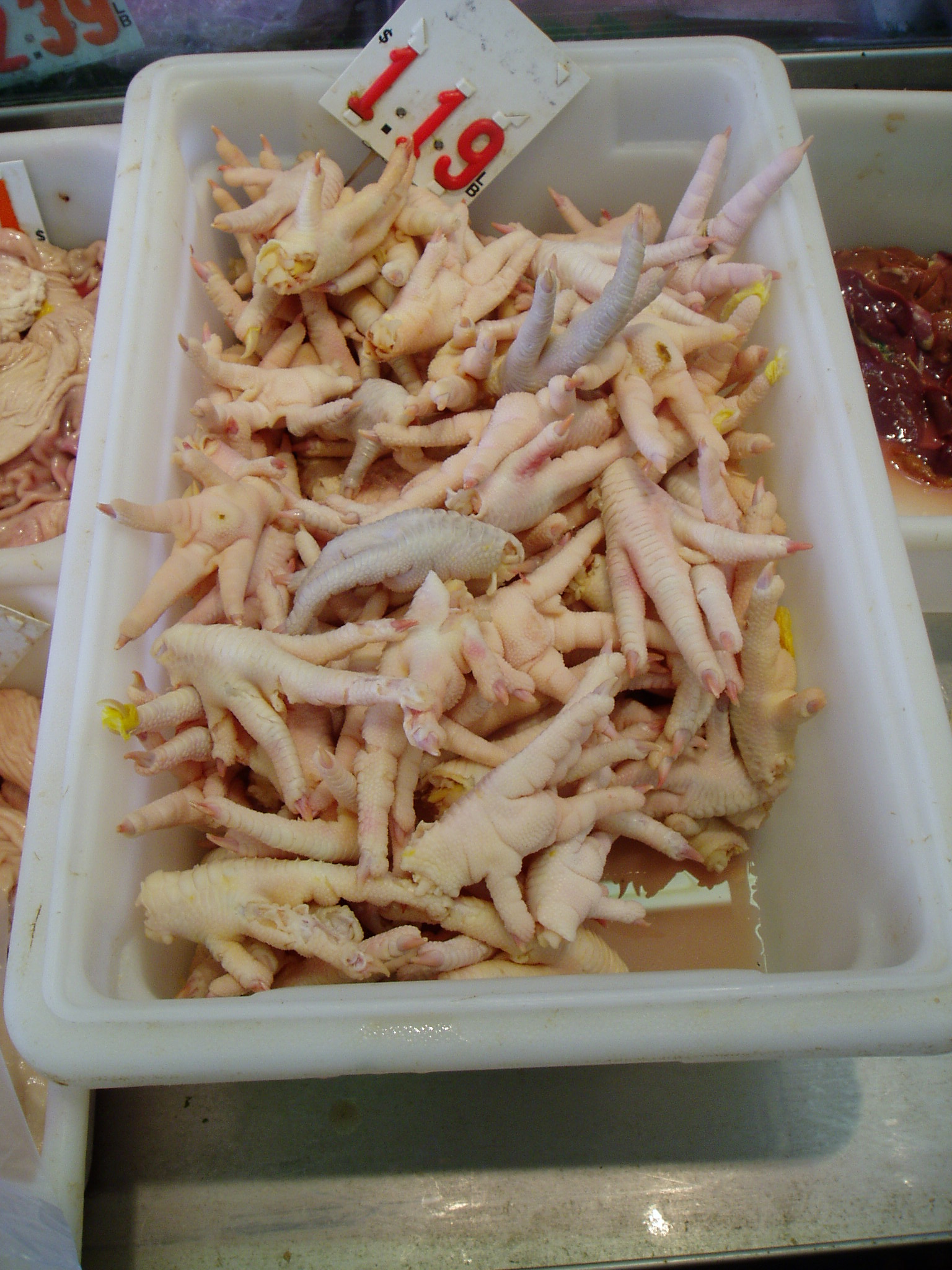 Phoenix talons or chicken feet (鳳爪 fung zau, 凤爪 fèngzhuǎ) at grocers in Chinatown, Oakland, California.